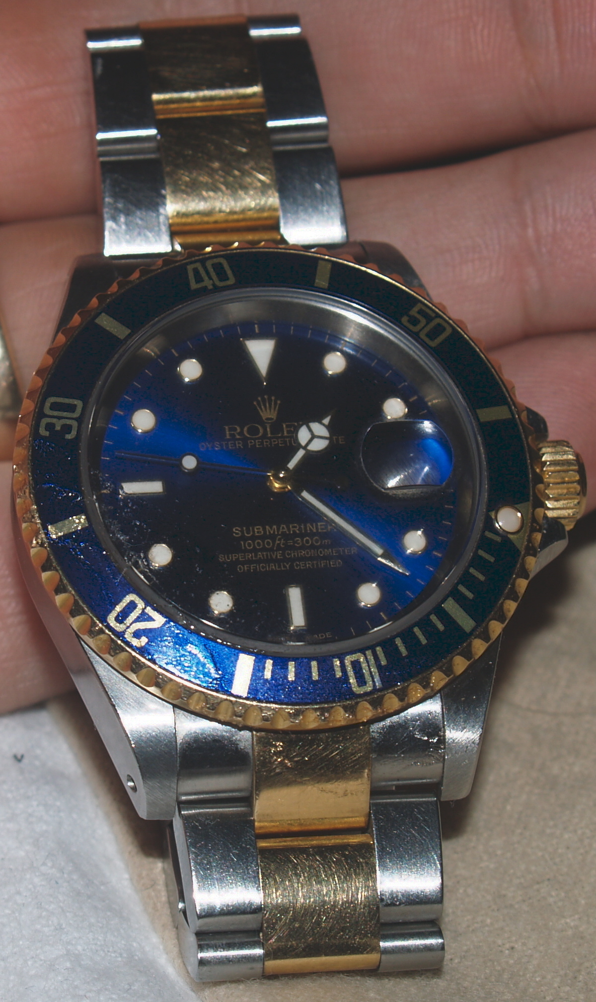 Please see filename above